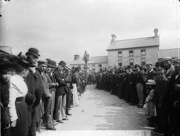 1 negative : glass, dry plate, b&w ; 16.5 x 21.5 cm.